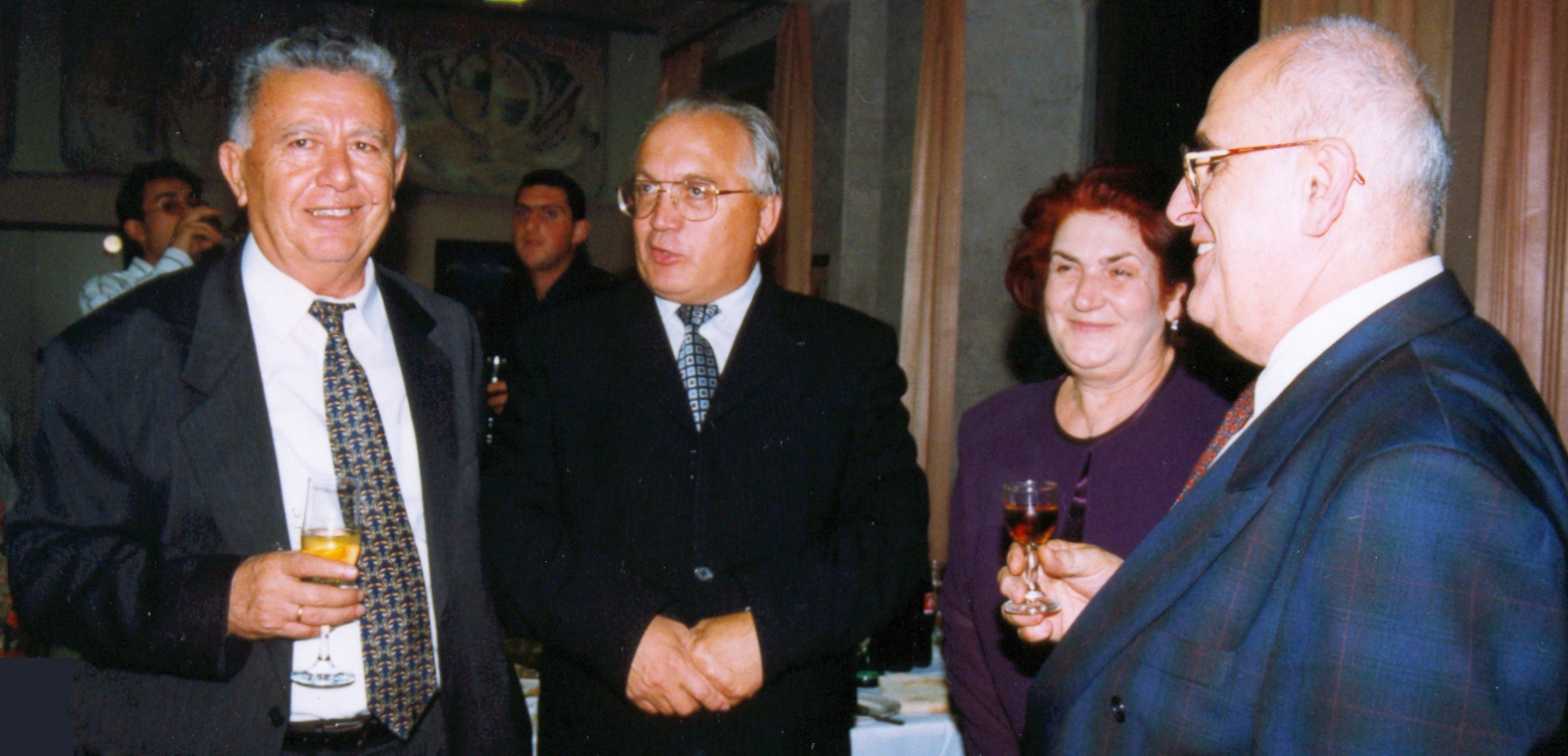 Edvard Chubaryan 75th Birthday, 05 May 2011 05, No. 46